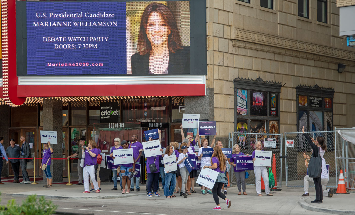 IMG_400s (4)